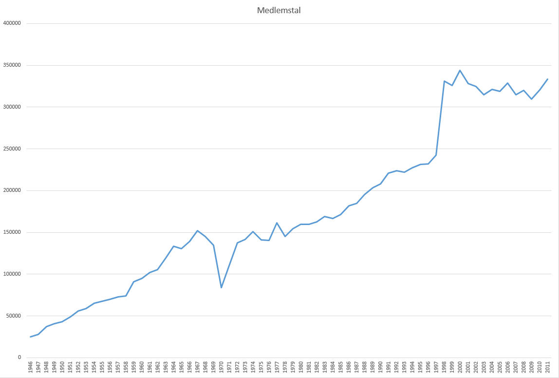 medlemstal